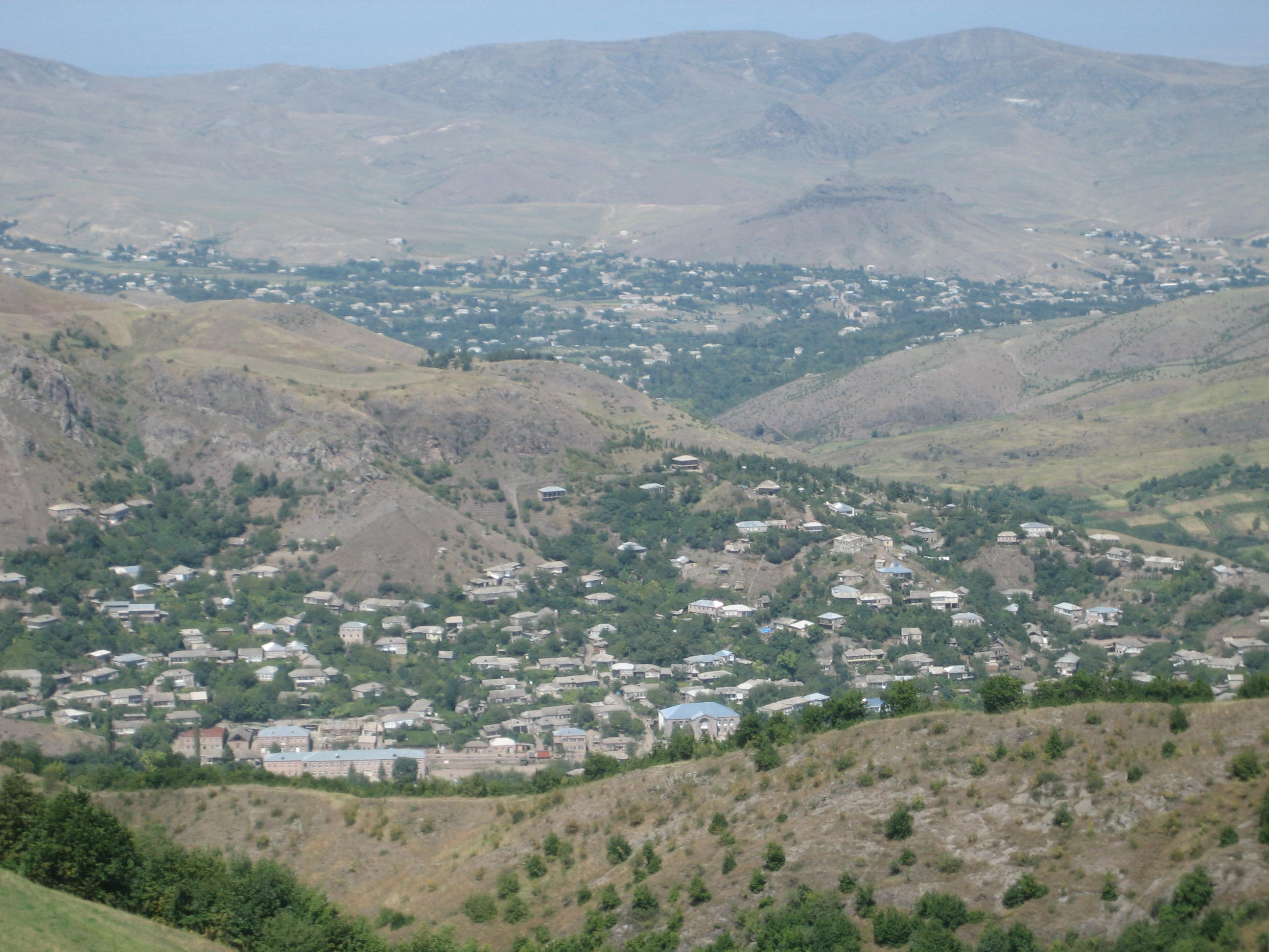 Mosesgegh